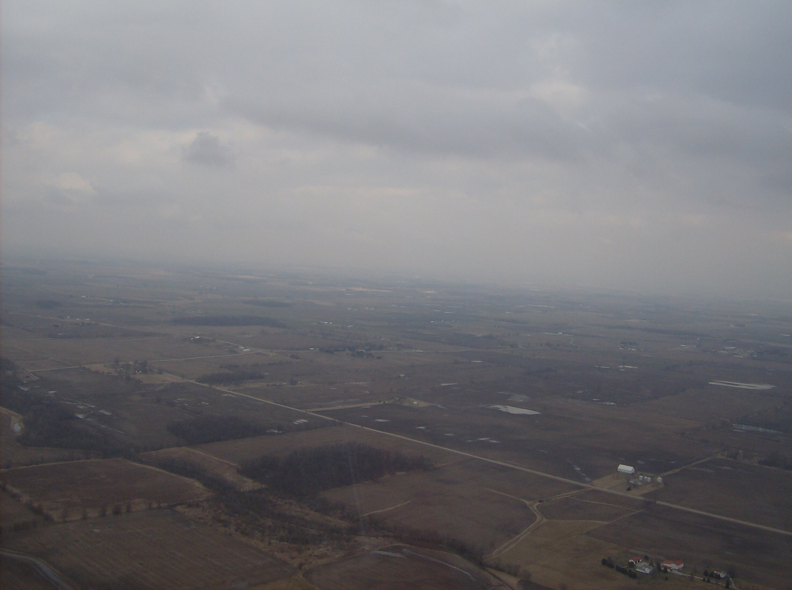 Countryside in western Jefferson Township, Fayette County, Ohio, United States. Picture taken from a Diamond Eclipse light airplane at an altitude of 2,500 feet MSL and a bearing of approximately 74º.